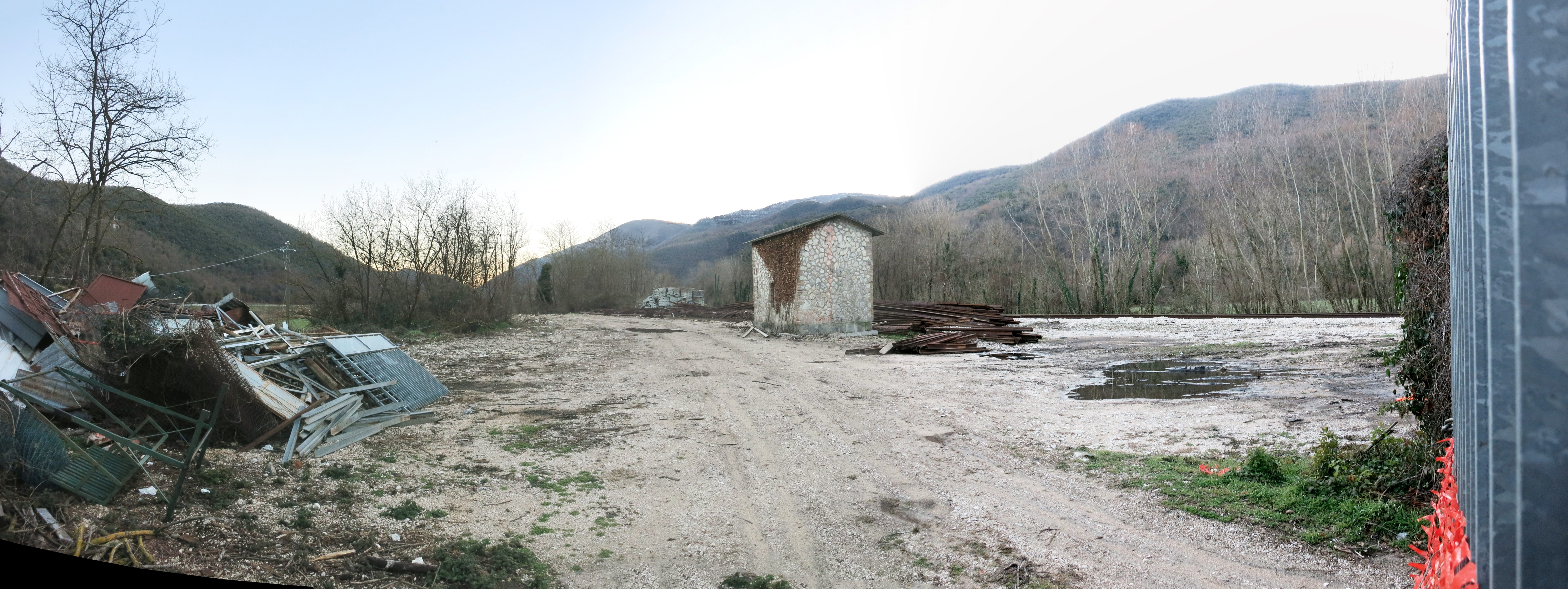 Panorama of the former freight area. Former Piediluco train station (province of Terni, Umbria, Italy), closed and abandoned since 1980, on the Terni-Rieti-L'Aquila-Sulmona line.